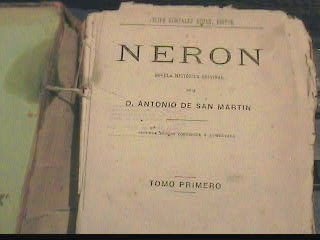 Neron novela historica